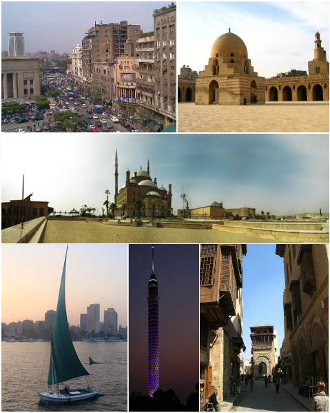 Photo montage of Cairo, Egypt.